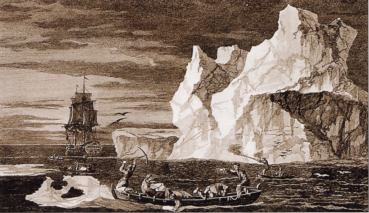 Hodges, William, 1744-1797 :The ice islands, seen the 9th of Janry., 1773